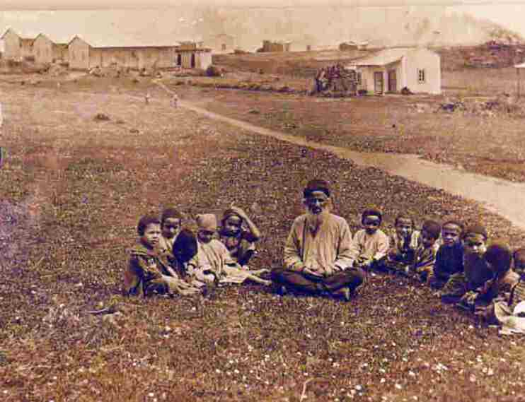 Torah study - Hadera , Education in Israel